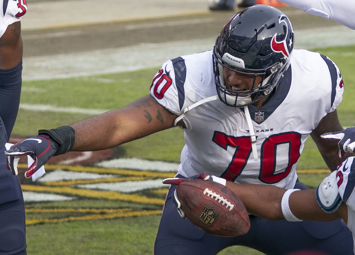 The Houston Texans celebrate at FedExField in 2018